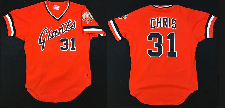 1982 San Francisco Giants #31 Mike Chris Game Worn Alternate Jersey photographed by William F. Henderson who may be contacted through his website thedream.shop.